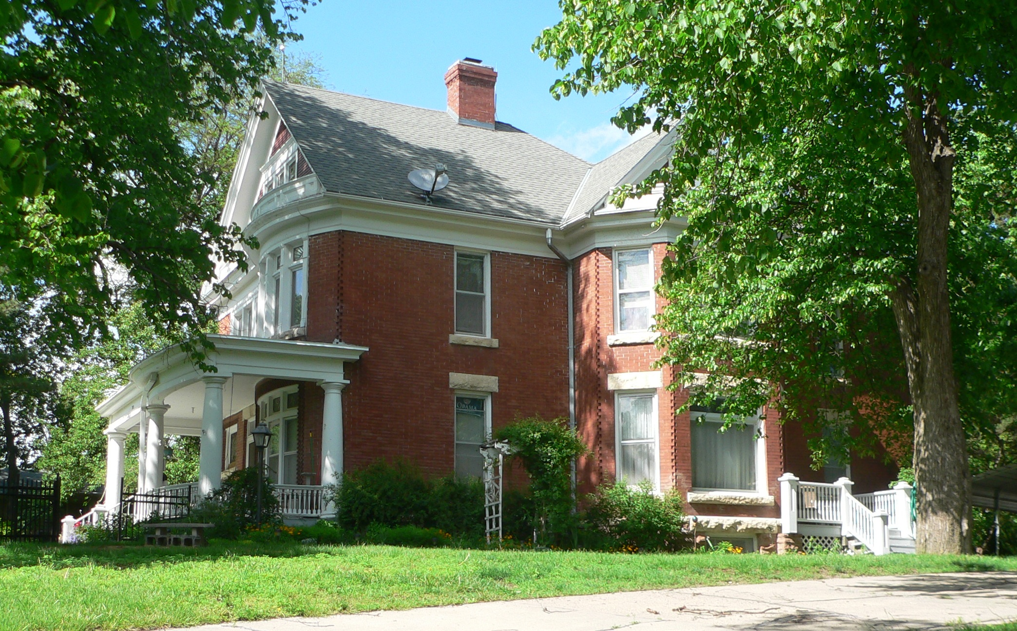 Frank J. Rademacher house, at 1424 Grove Ave. (northeast corner of Grove and 14th Street); seen from the southwest.